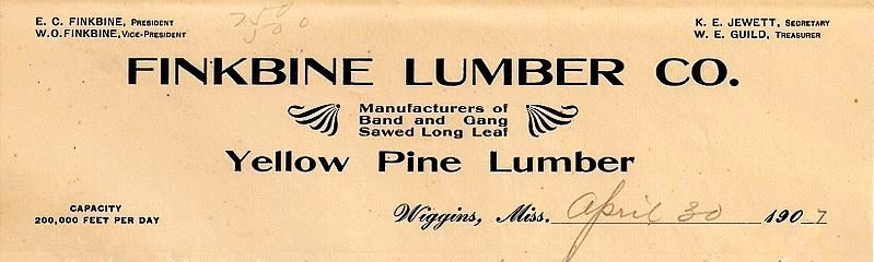 Letterhead from Finkbine Lumber Company, 1907. Digital representation of original Finkbine Lumber Company letterhead in private family collection.